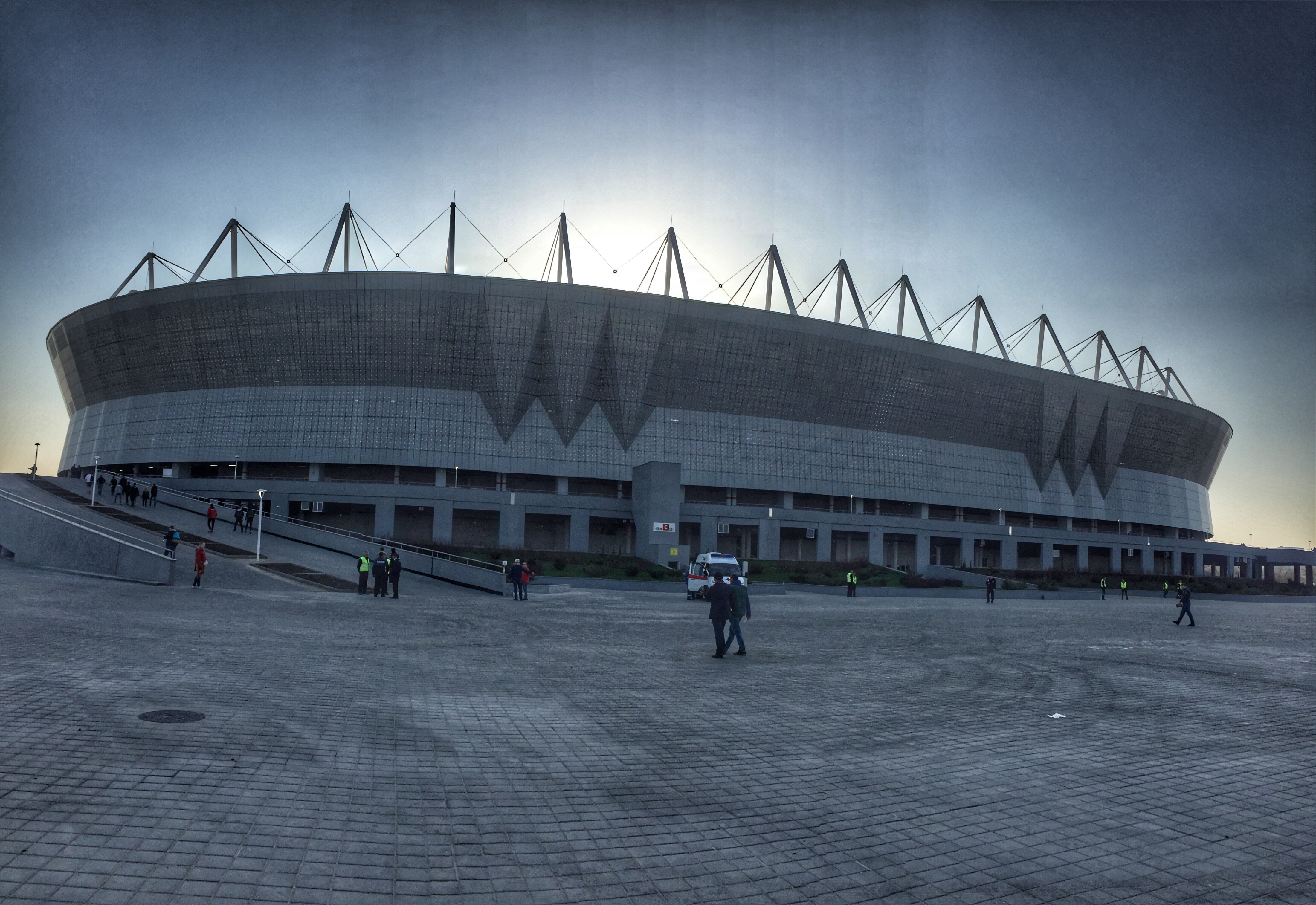 "Rostov-Arena" is a football stadium in Rostov-on-Don. April 2018, the day of the first official match.